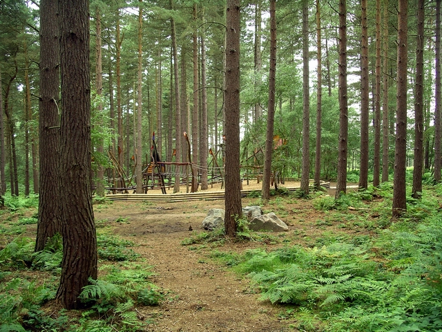 Adventure playground, Sherwood Pines This play area in Sherwood Pines Forest Park appeared to be a fairly recent addition.